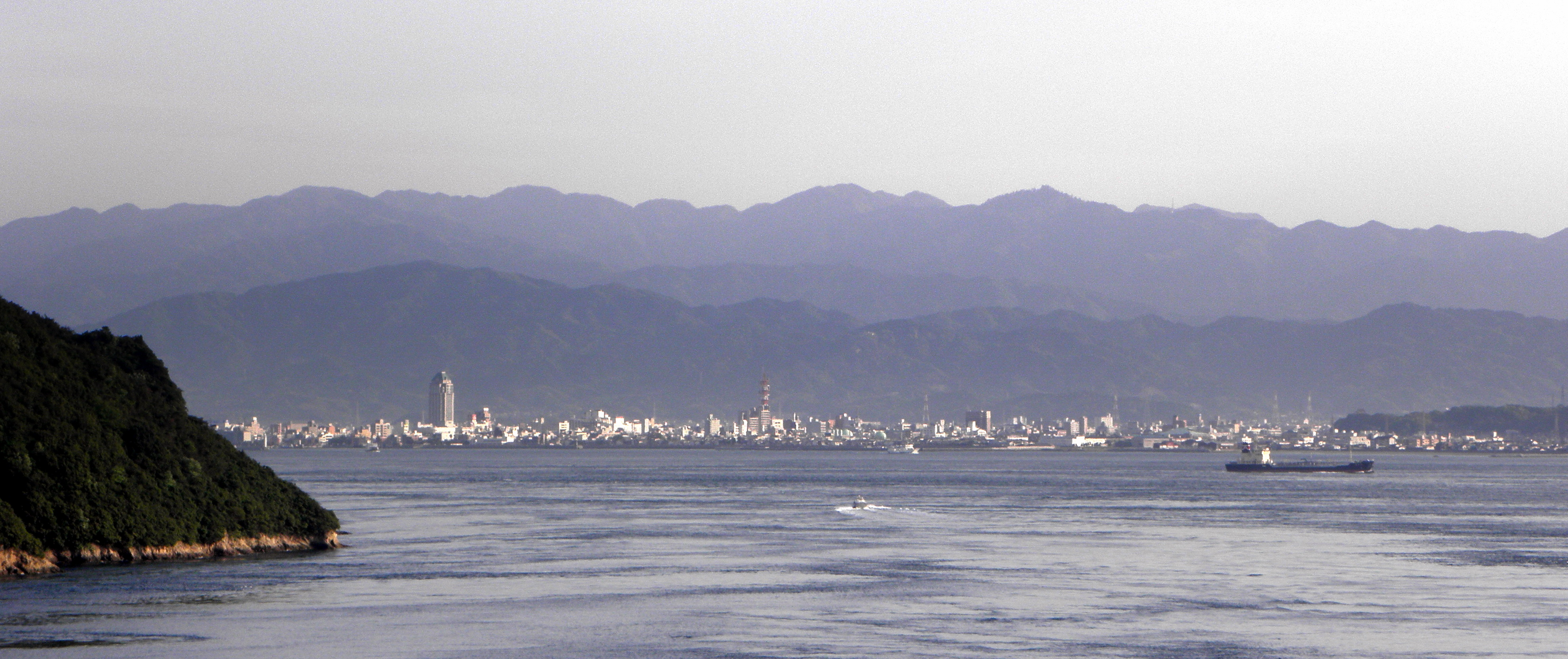 Imabari City as viewed from Oshima